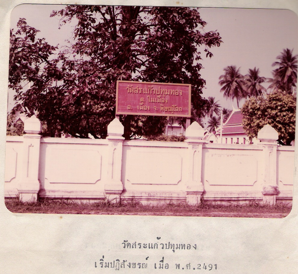 ป้ายวัดสระแก้วปทุมทอง